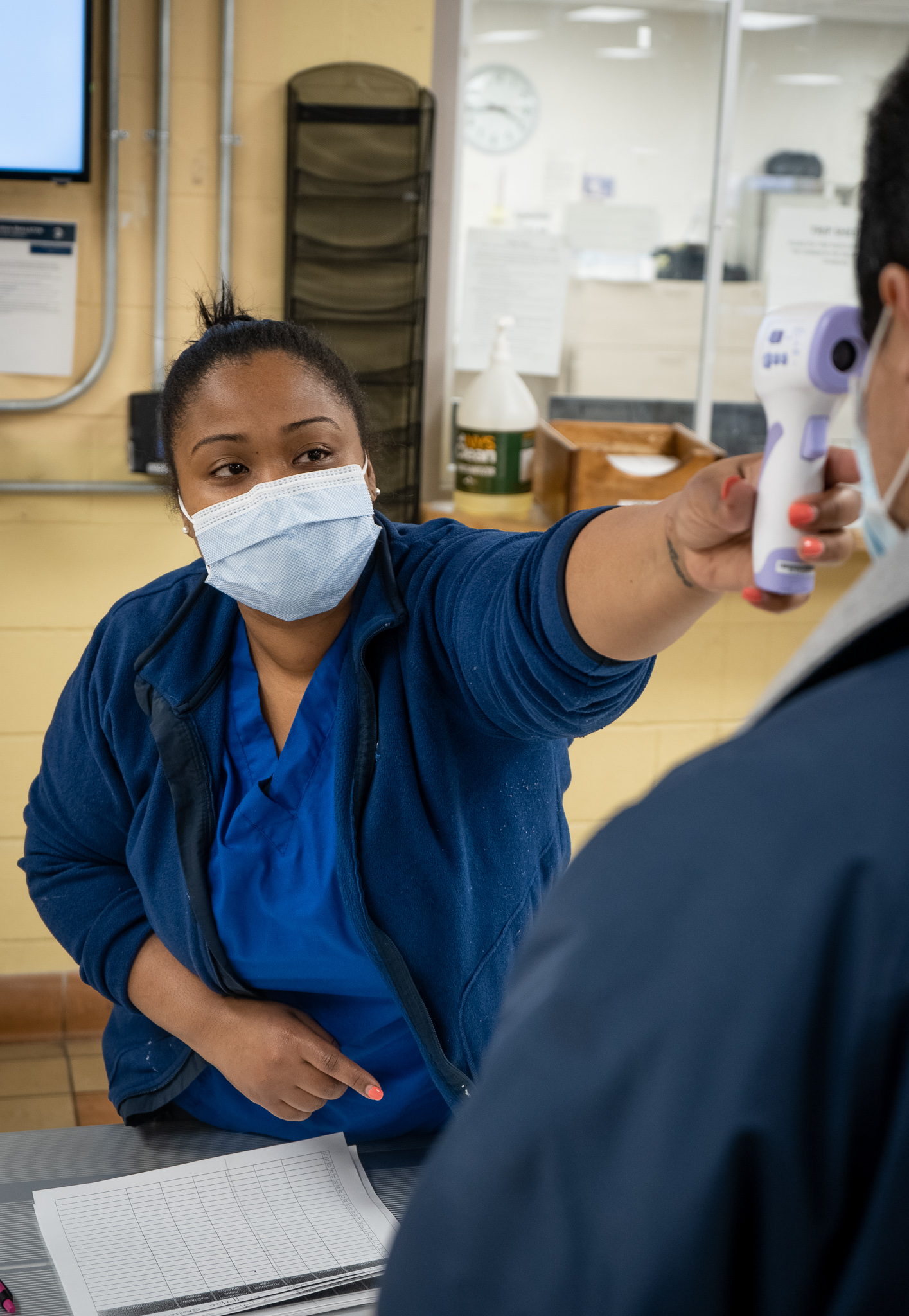 The Metropolitan Transportation Authority (MTA) has deployed a “Temperature Brigade” consisting of medically trained personnel to check temperatures of heroic employees at 22 strategic locations, including the Grand Av Depot in Queens, as they report to work throughout the MTA service region, helping to reduce the spread of illnesses as the organization battles the COVID-19 pandemic. Photo: Andrew Cashin / MTA New York City Transit